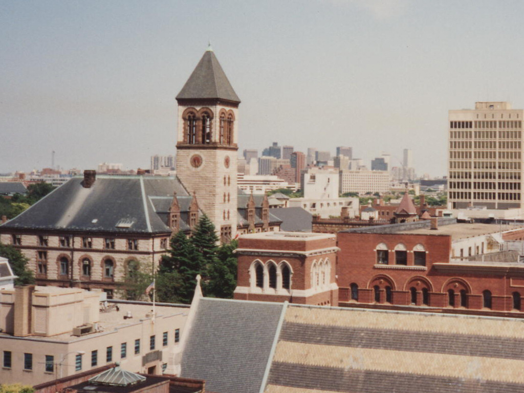 Cambridge Massachusetts - City Hall - Mid 1980s Photo by alcinoe